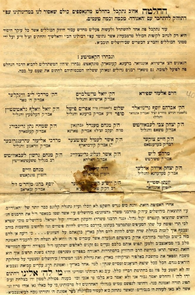 The declaration of the Ultra-Orthodox rabbis of Czechoslovakia and Hungary, convened in Chop, Zakarpattia Oblast and headed by Grand Rebbe Chaim Elazar Spira (signature: top right), which banned their followers from any contact with the newly established World Agudath Israel. The decision decries the Agudah as Zionist. Among the signatories are Rabbi Joel Teitelbaum of Irshava, (top, second to the right) and dayyan Yonasan Steif (bottom, right).